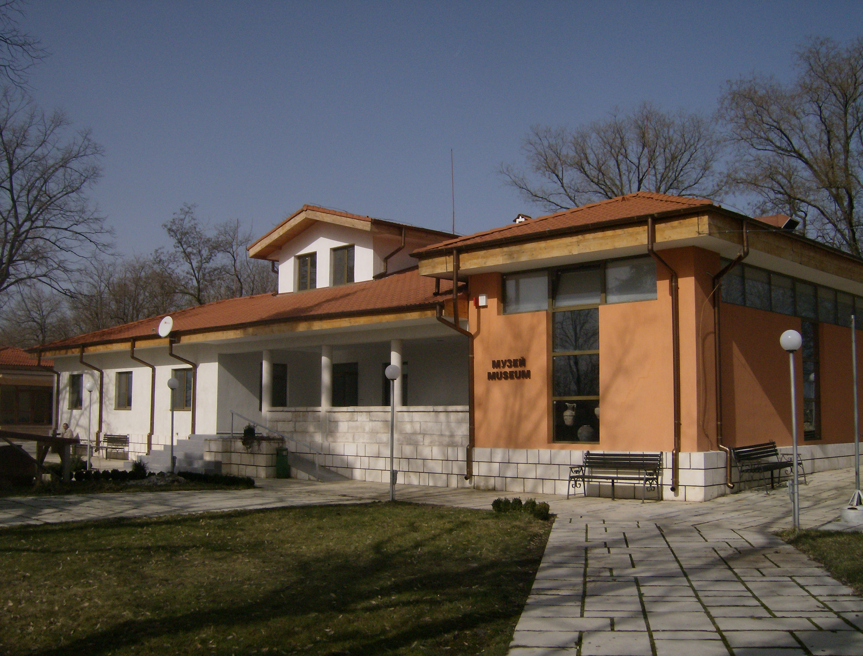 Pliska Museum